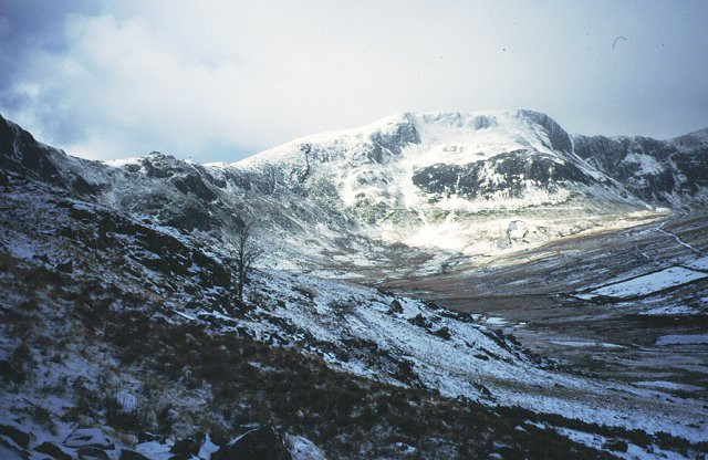 Cwm Eigiau. South side of the glen reaching deep into the eastern side of the Carneddau. Craig yr Ysfa in the distance.